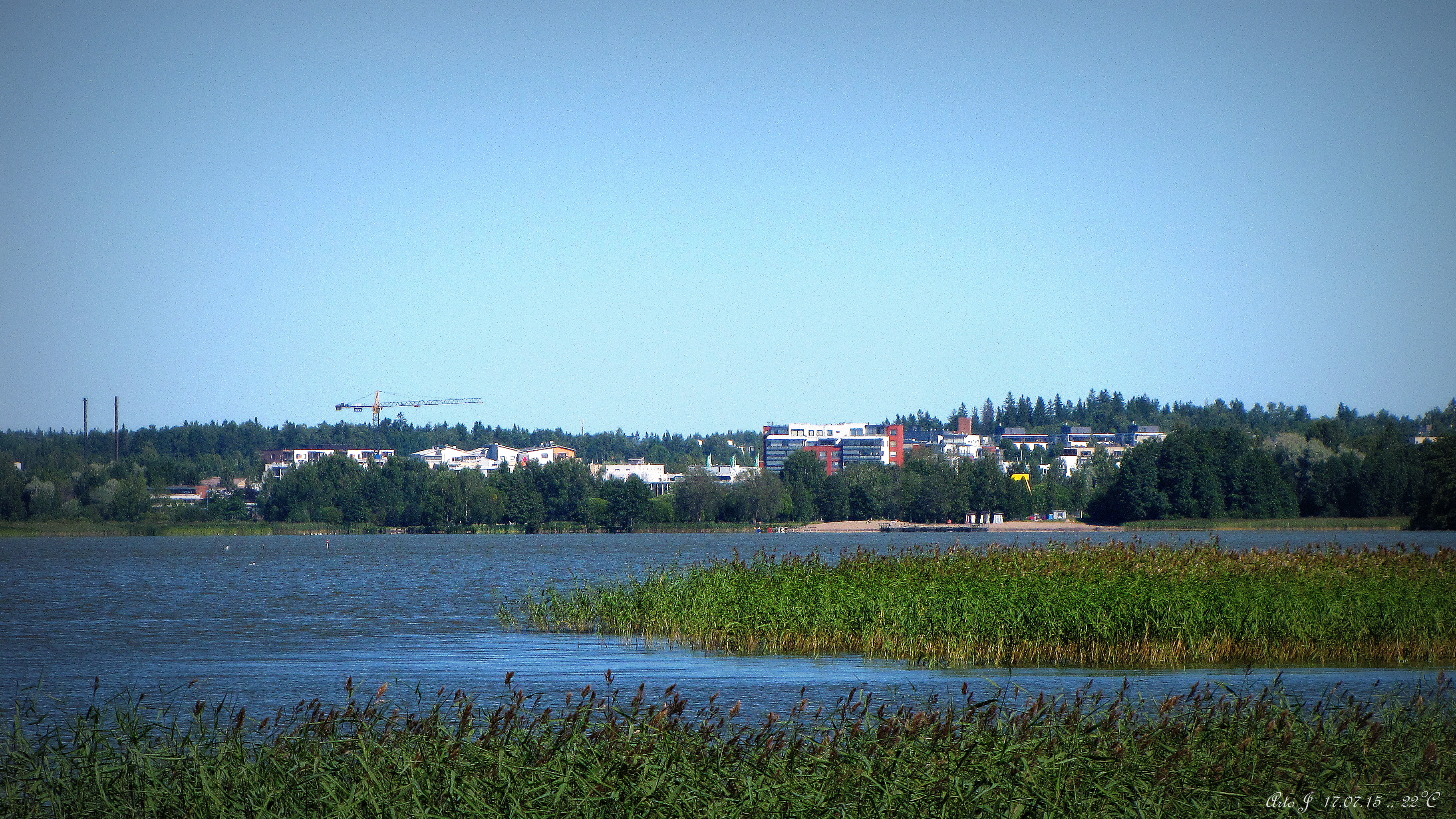 Järvenpää - The view of the lake.